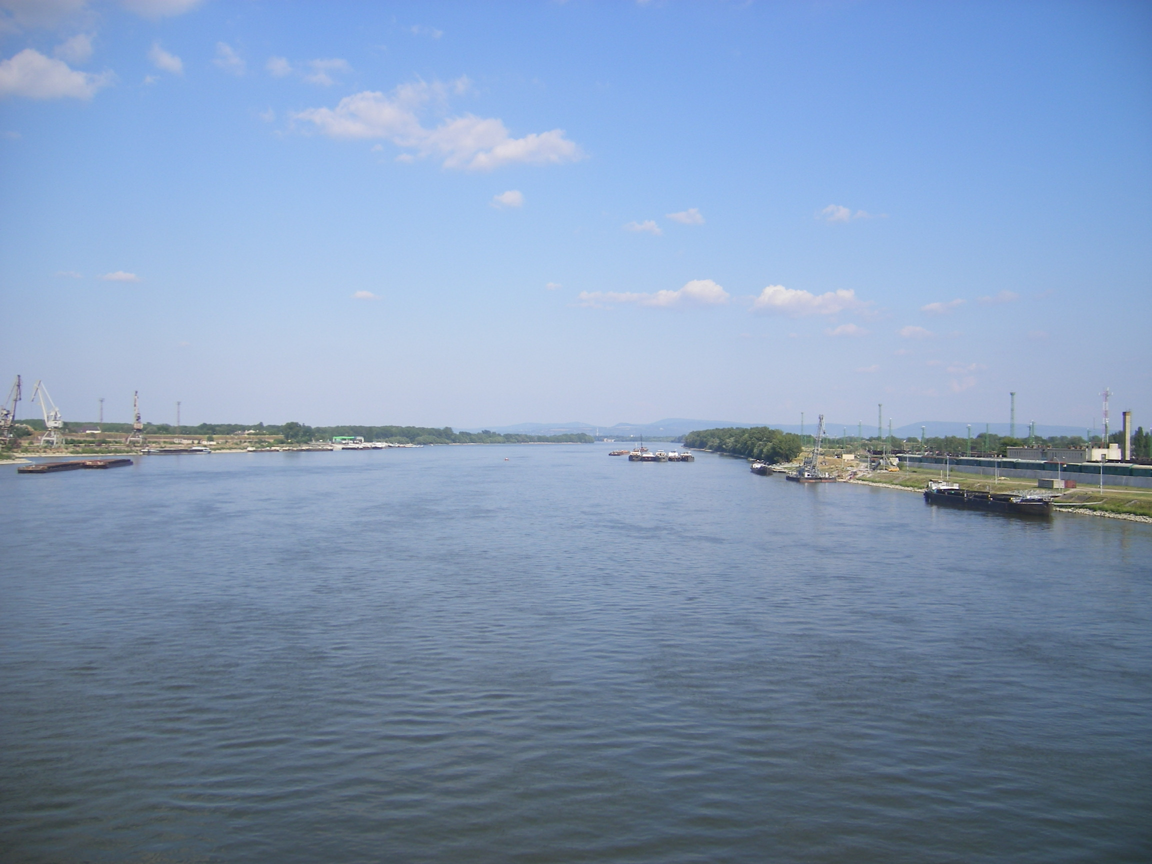 the Danube from the Erzsébet bridge. Right bank is Komárom (Hungary), left Komárno (Slovakia).